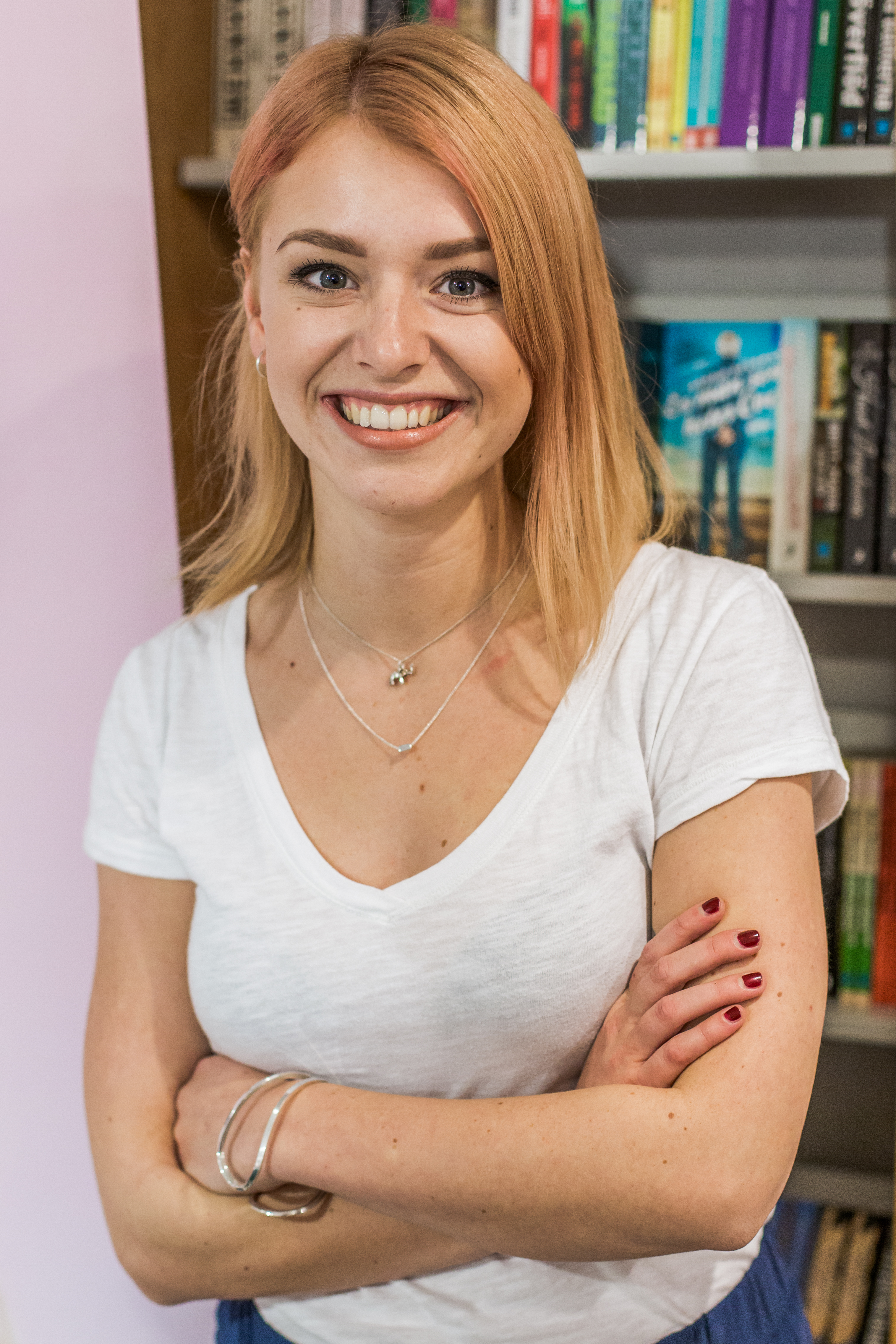 Blogger, vlogger, comedian, television presenter and author Clara Henry at bookshop Hedemora bokhandel in Hedemora to sign her book "Ja jag har mens, hurså?"